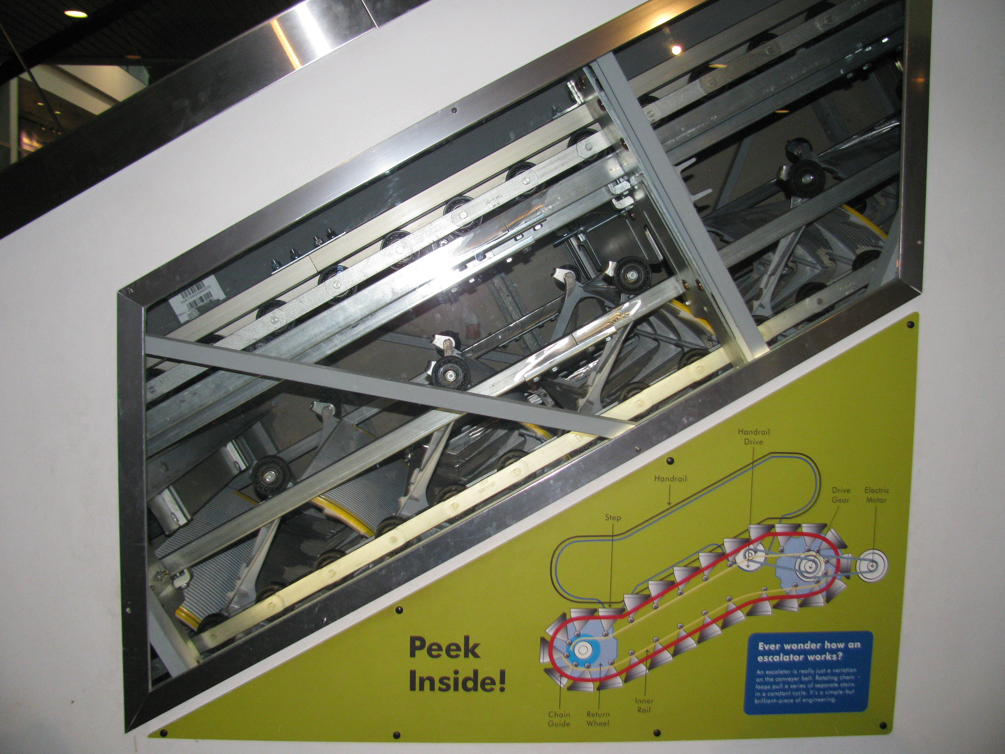 Escalator in Denver Museum of Nature and Science, showing its internal work.